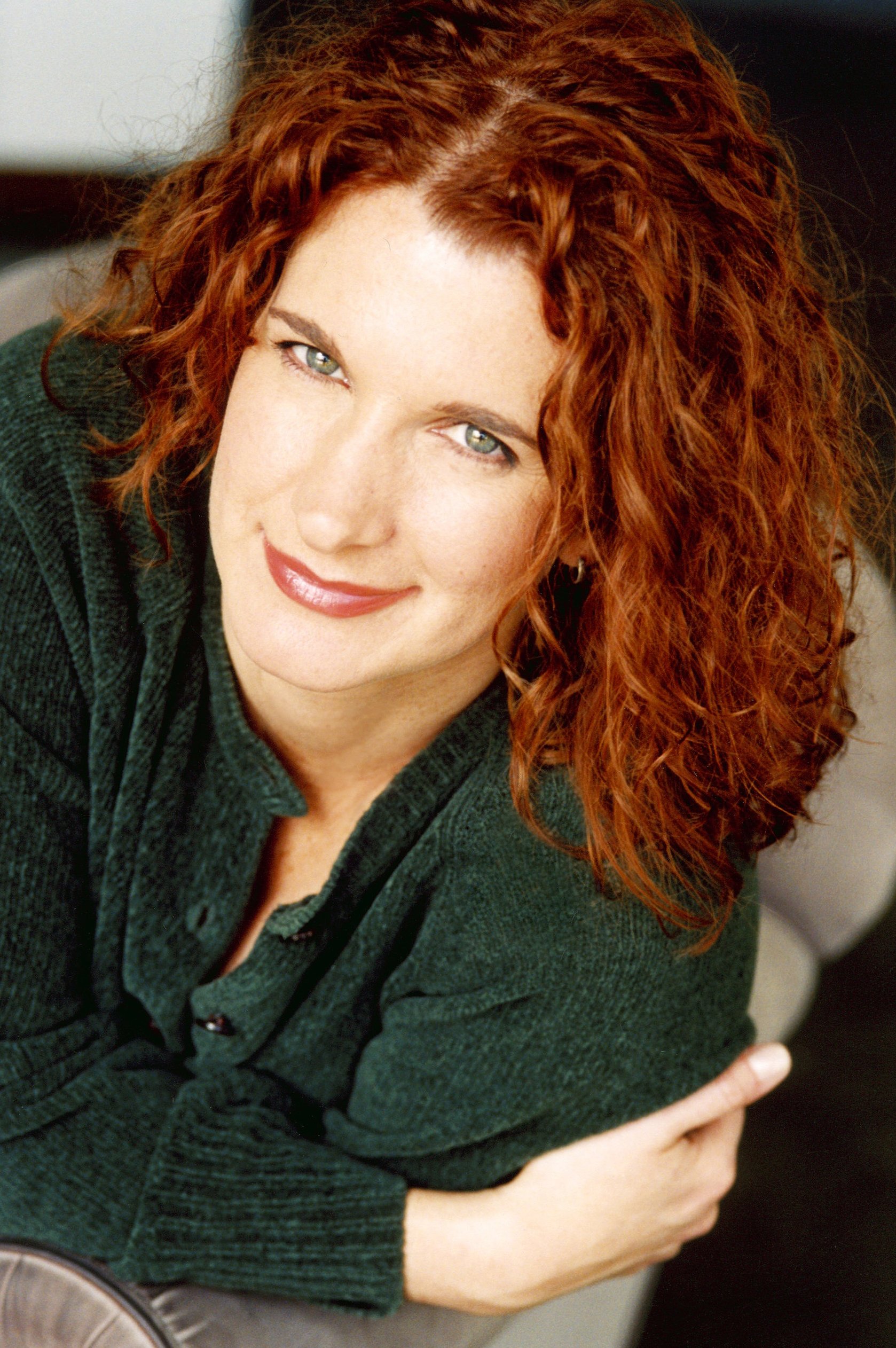 Producer Hilari Scarl from the See What I'm Saying: The Deaf Entertainers Documentary Official Press KitDiscpad (talk) 04:01, 9 June 2011 (UTC)